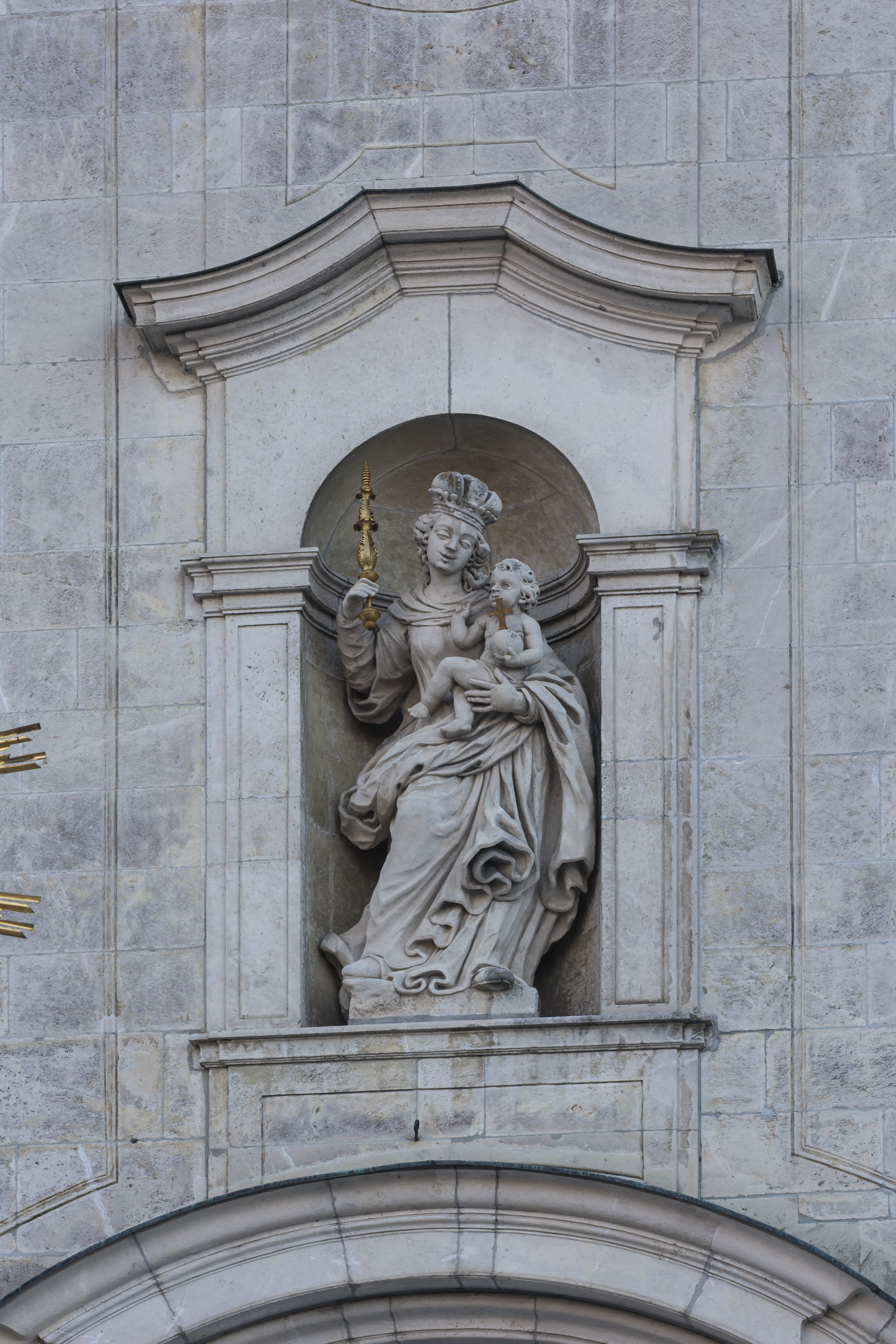 In a niche in the facade of the church of former monastery Spital am Pyhrn there is a statue of Mary and child, made in 1725 by Severin Träxl.